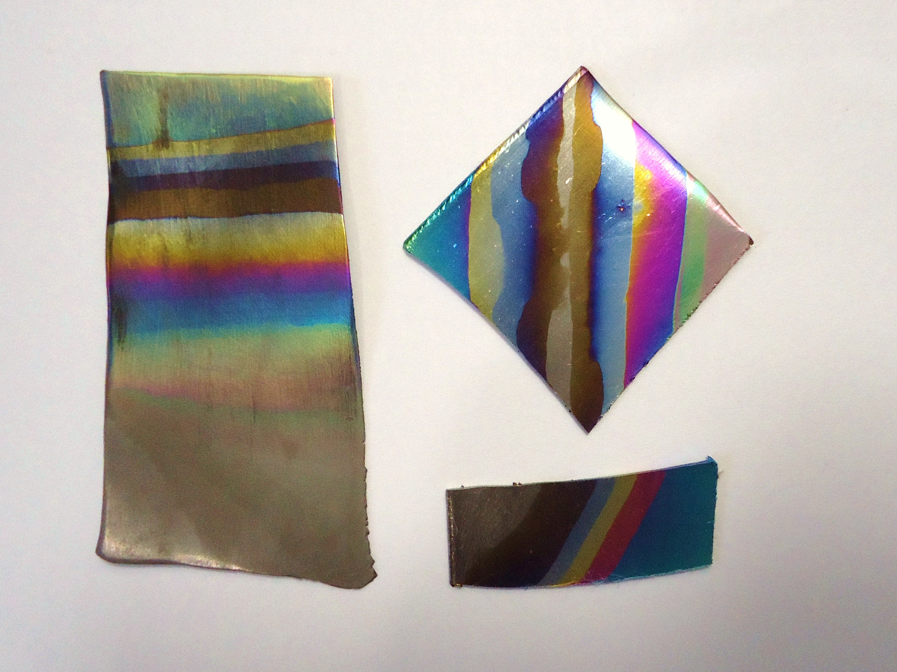 Anodized niobium. Photo: Mauro Cateb